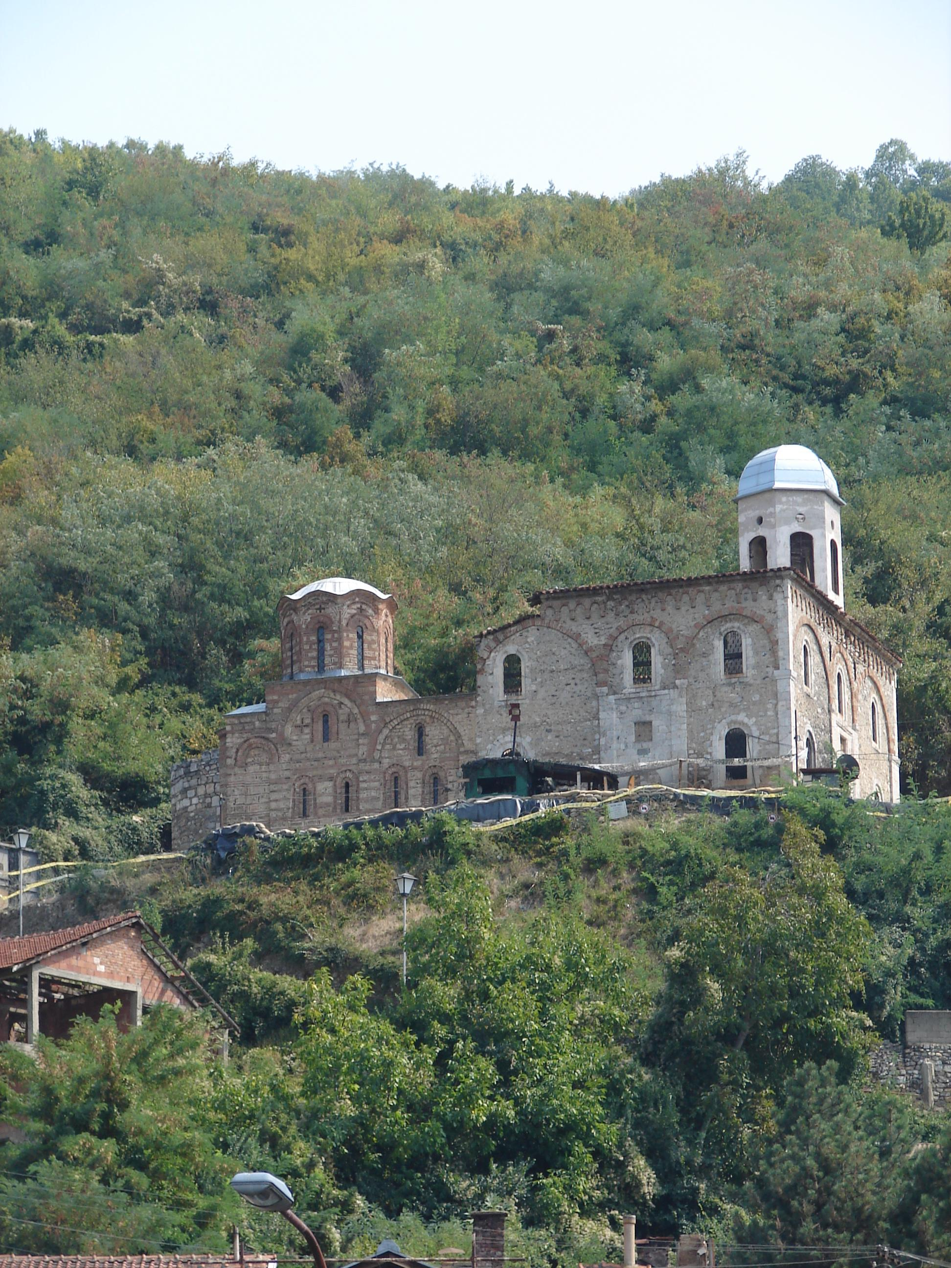 Ortodox church of Holy Salvation (Свети Спас) in Prizren